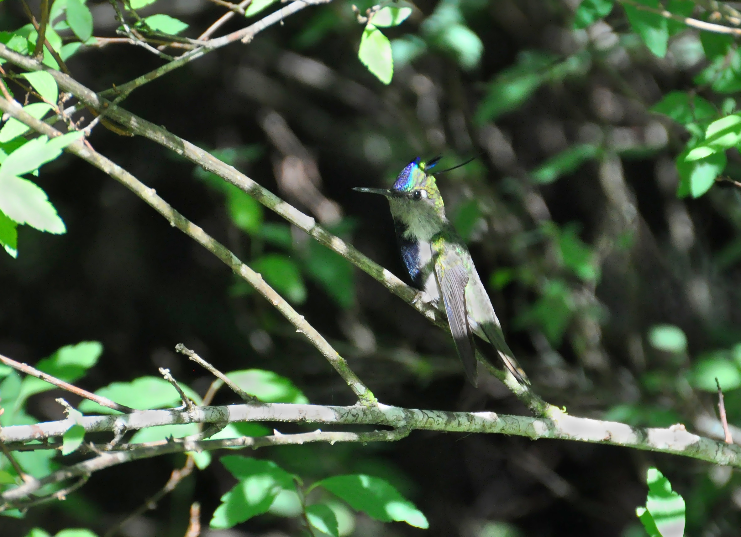 Stephanoxis lalandi subsp. loddiges male photographed in Rio Grande do Sul, Brazil, in October 2010.